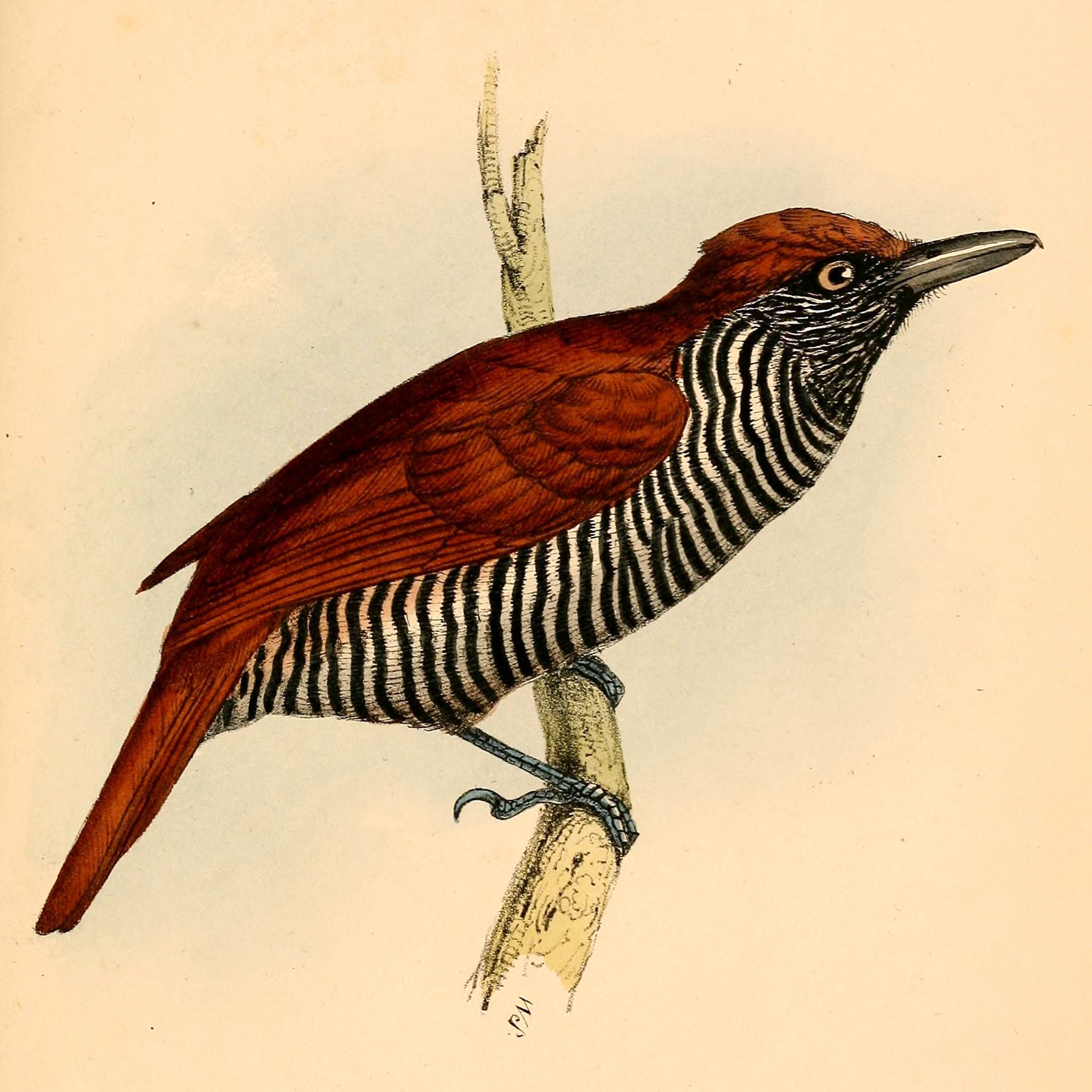 « Thamnophilus badius » = Thamnophilus palliatus palliatus (Subspecies of Chestnut-backed Antshrike) - female